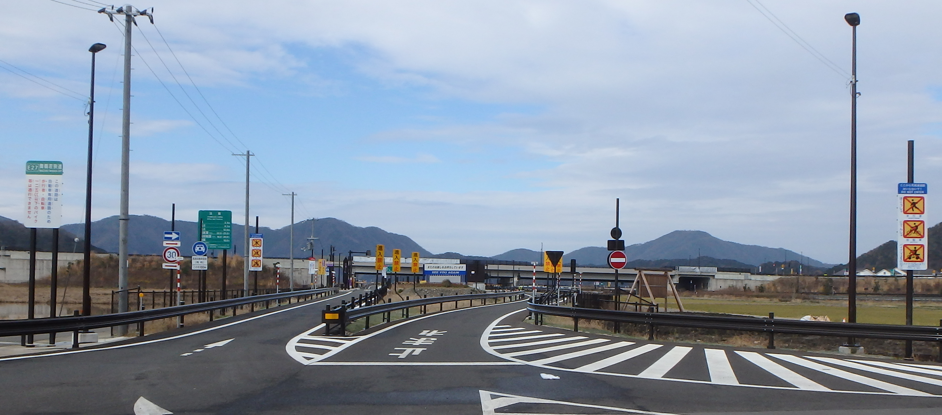 Mikata-Goko Smart Inter Change, Fukui prefecture,Japan